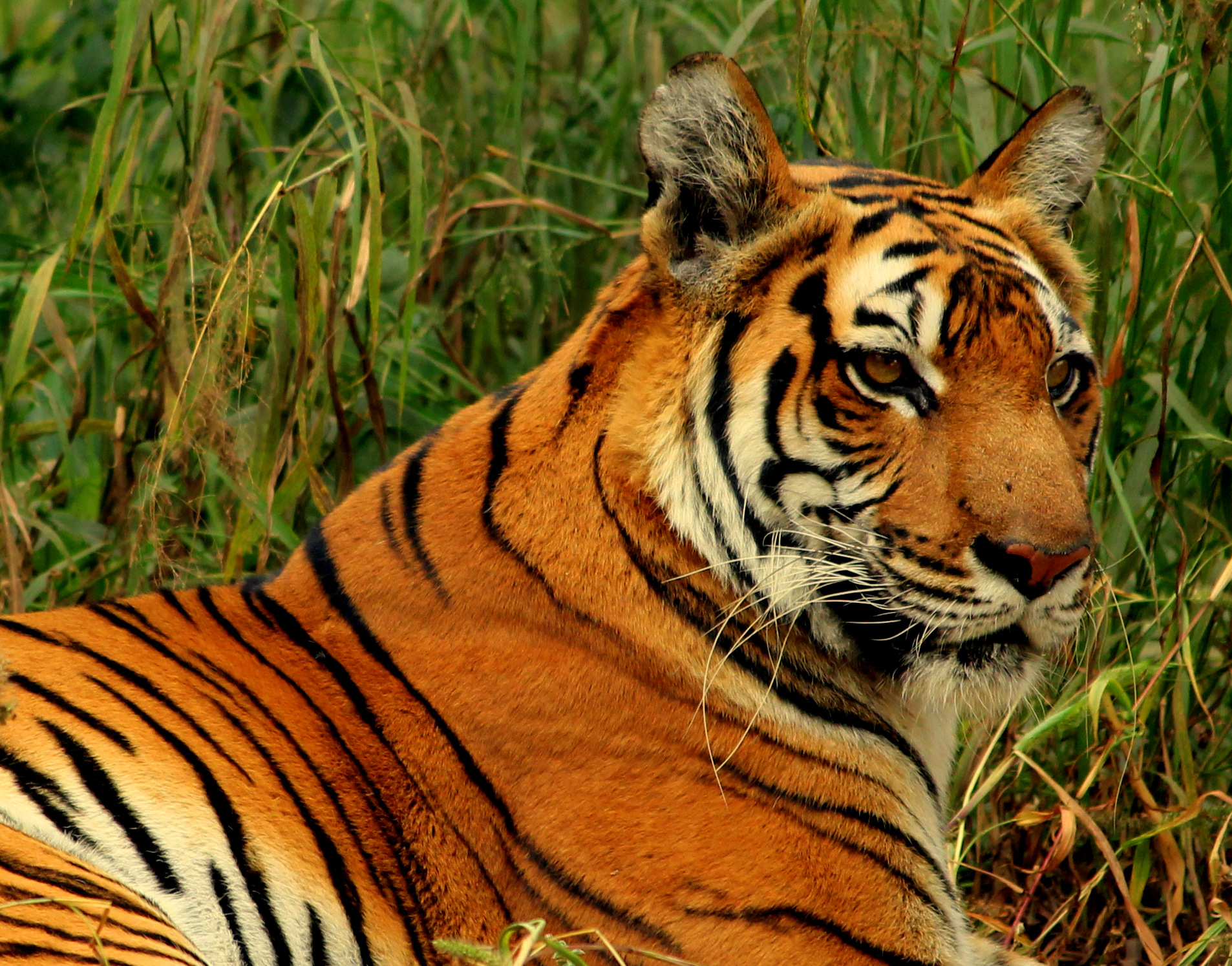 Shot at New Delhi Zoo . Press F to FAVORITE Press L to View in Black .